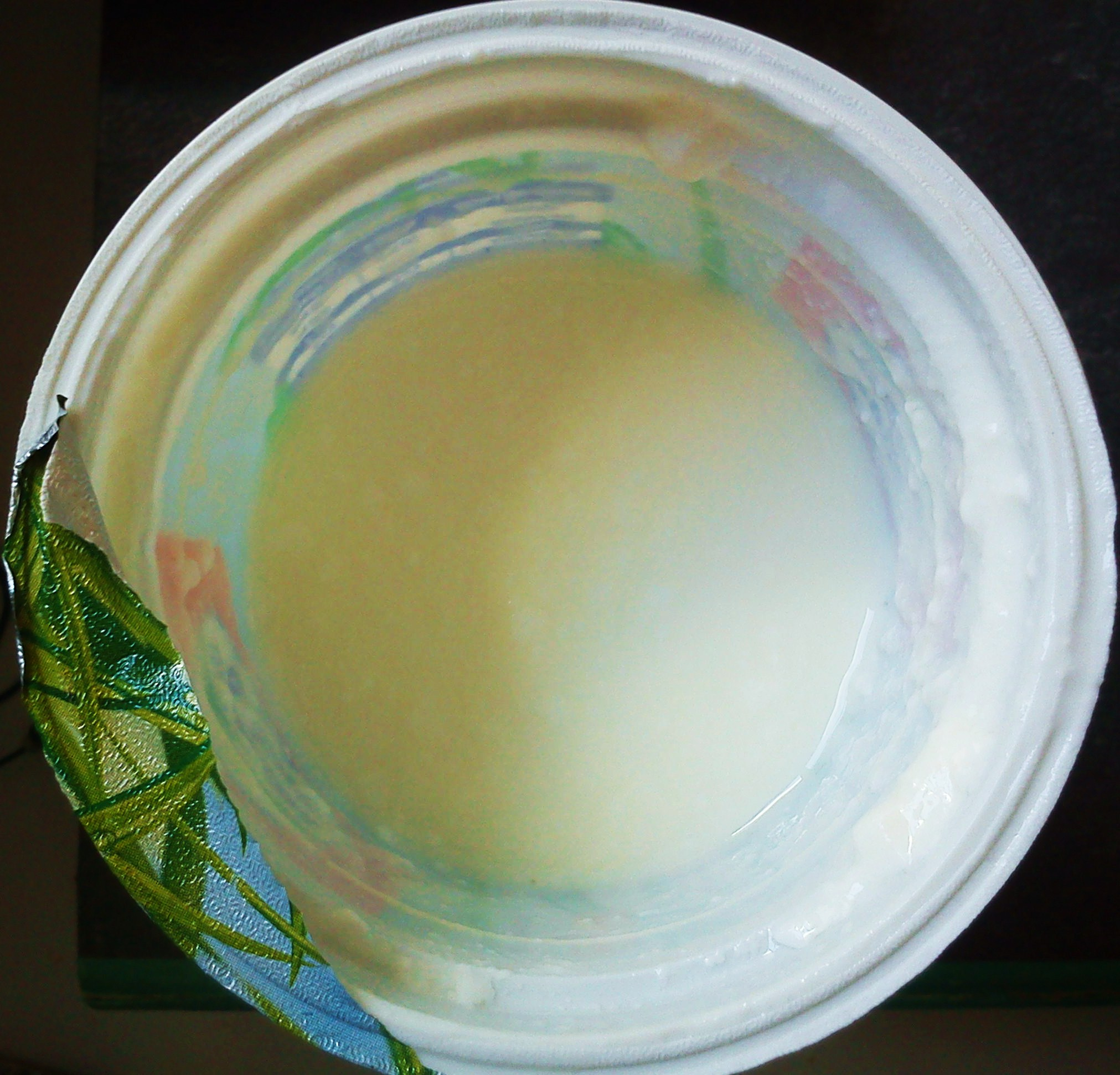 Soured milk from Poland